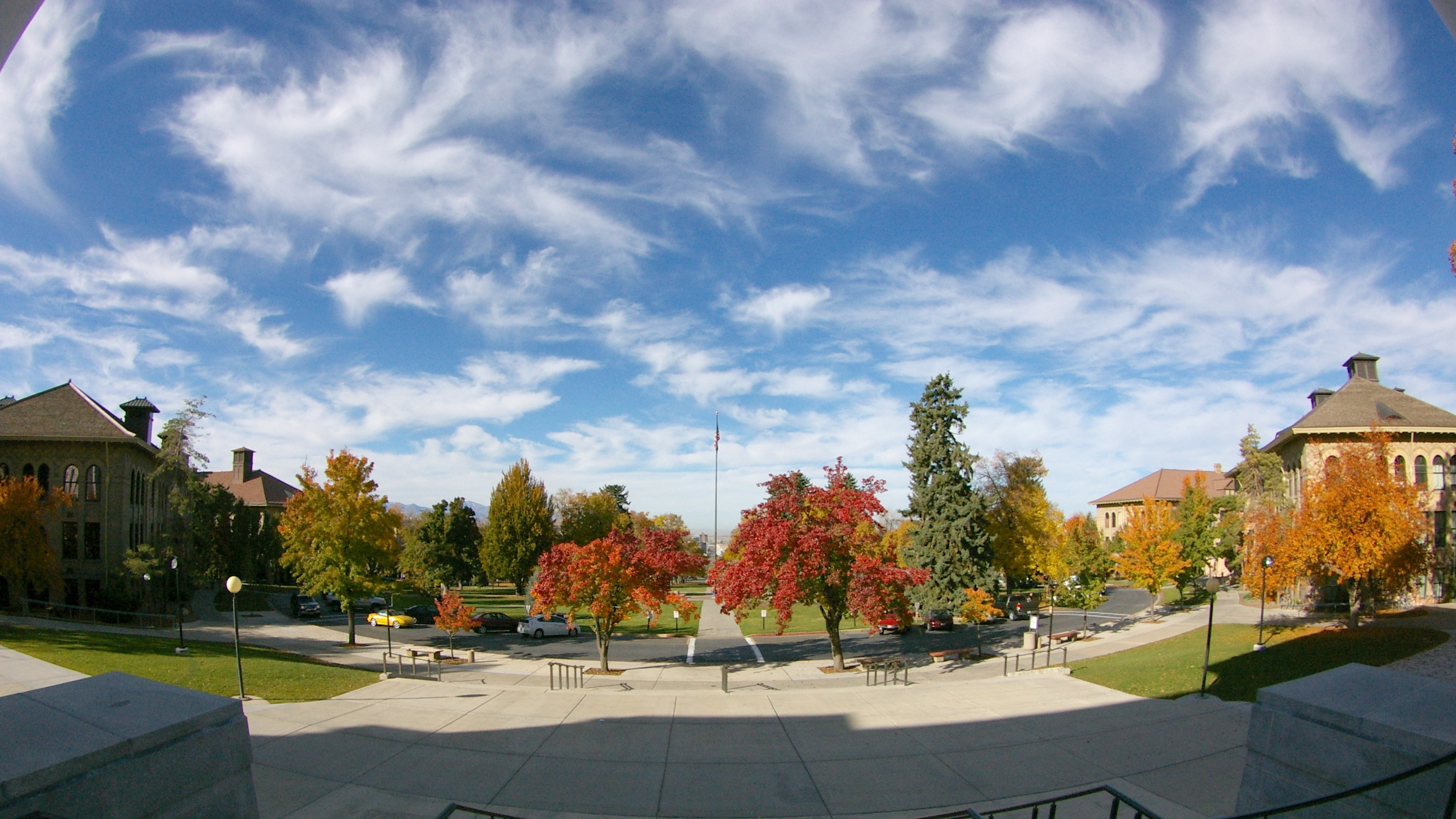 President's Circle as seen from the Park Building on the campus of the University of Utah.